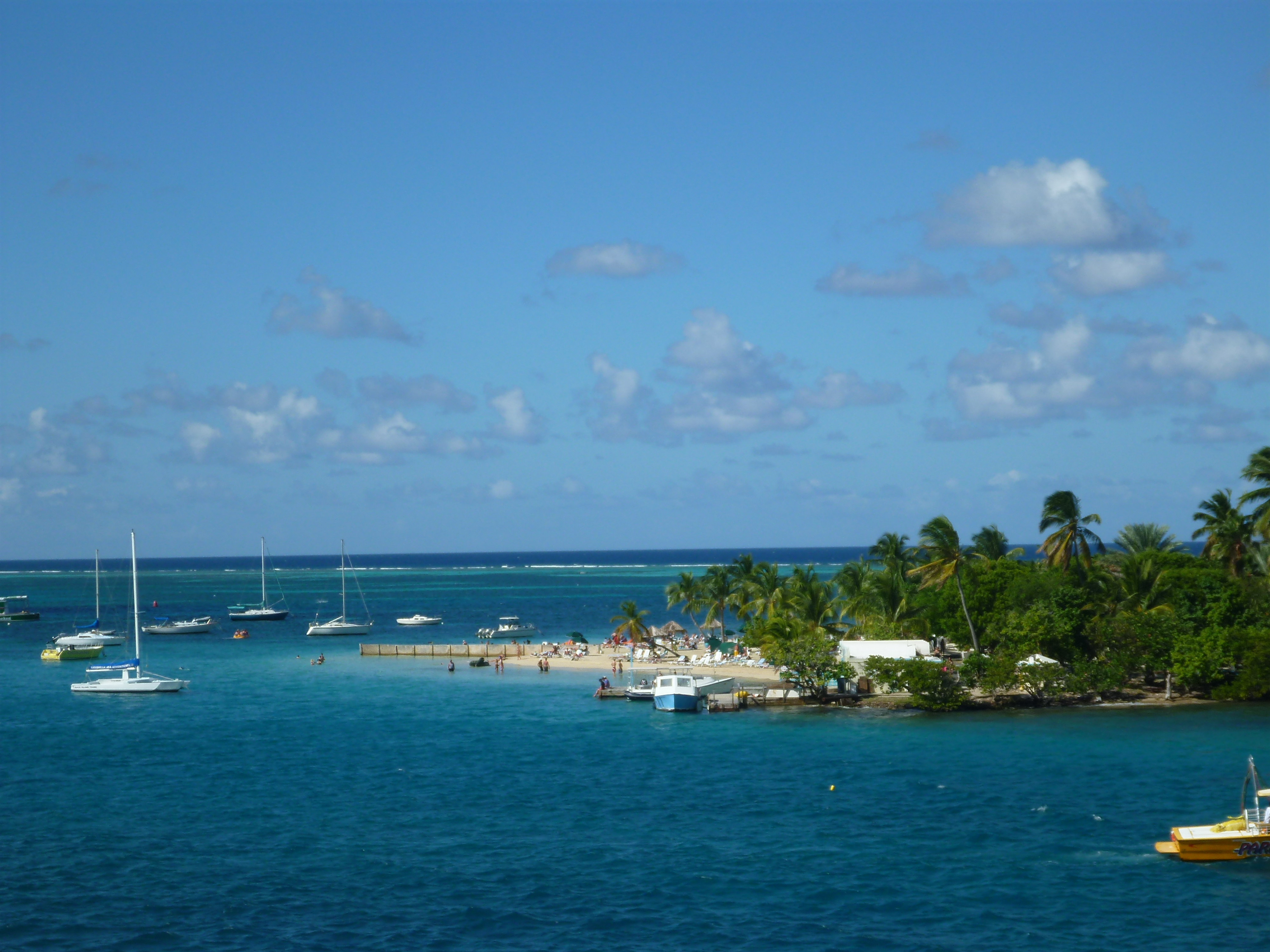 Protestant Cay in St. Croix, USVI